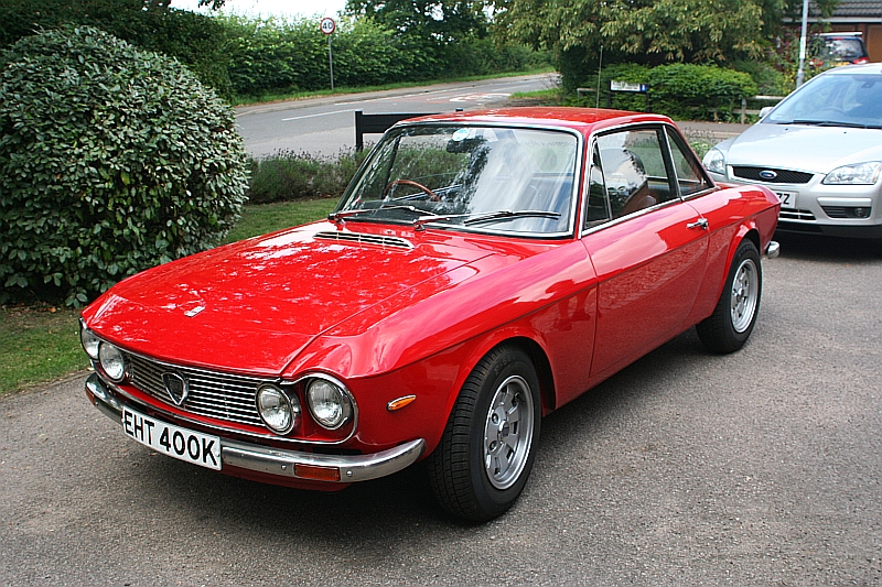 see previous